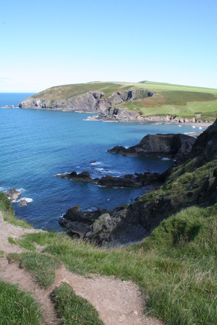 Dinas Head and Pwllgwaelod This is the view back to Dinas Head and Pwllgwaelod bay from the coast path. This is just before Aber Bach.